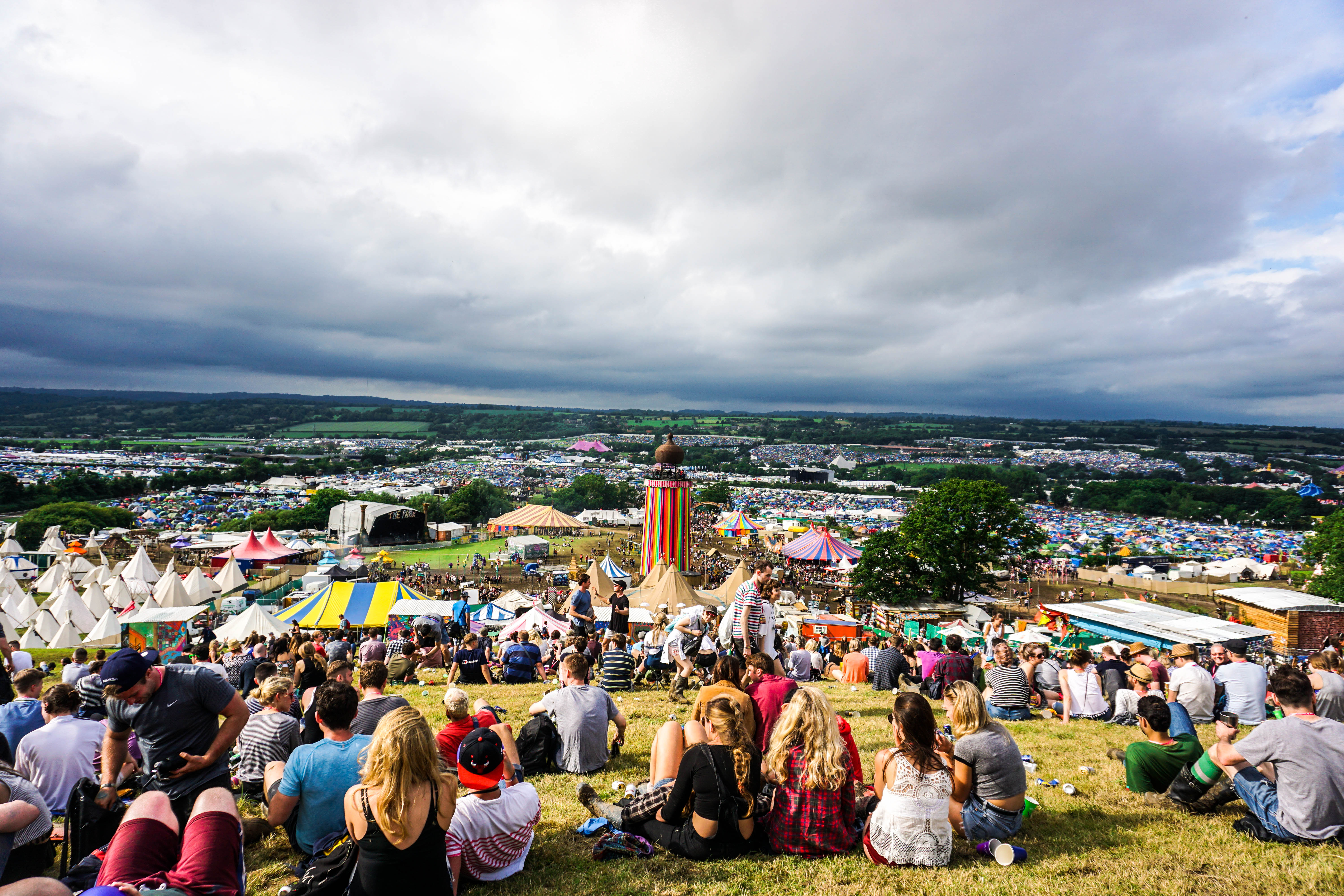 Crowd gathered at the highest point in the farm at Glastonbury festival, June 2016.